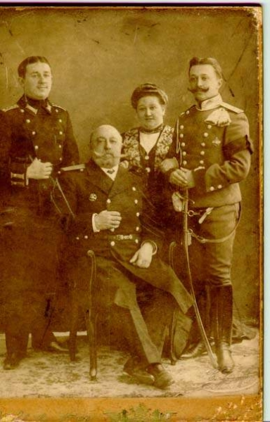 In a photo 1914 Alexander Hrebtovich with a family.